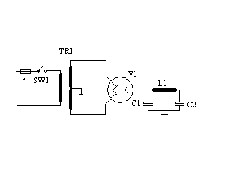 Radio Supply